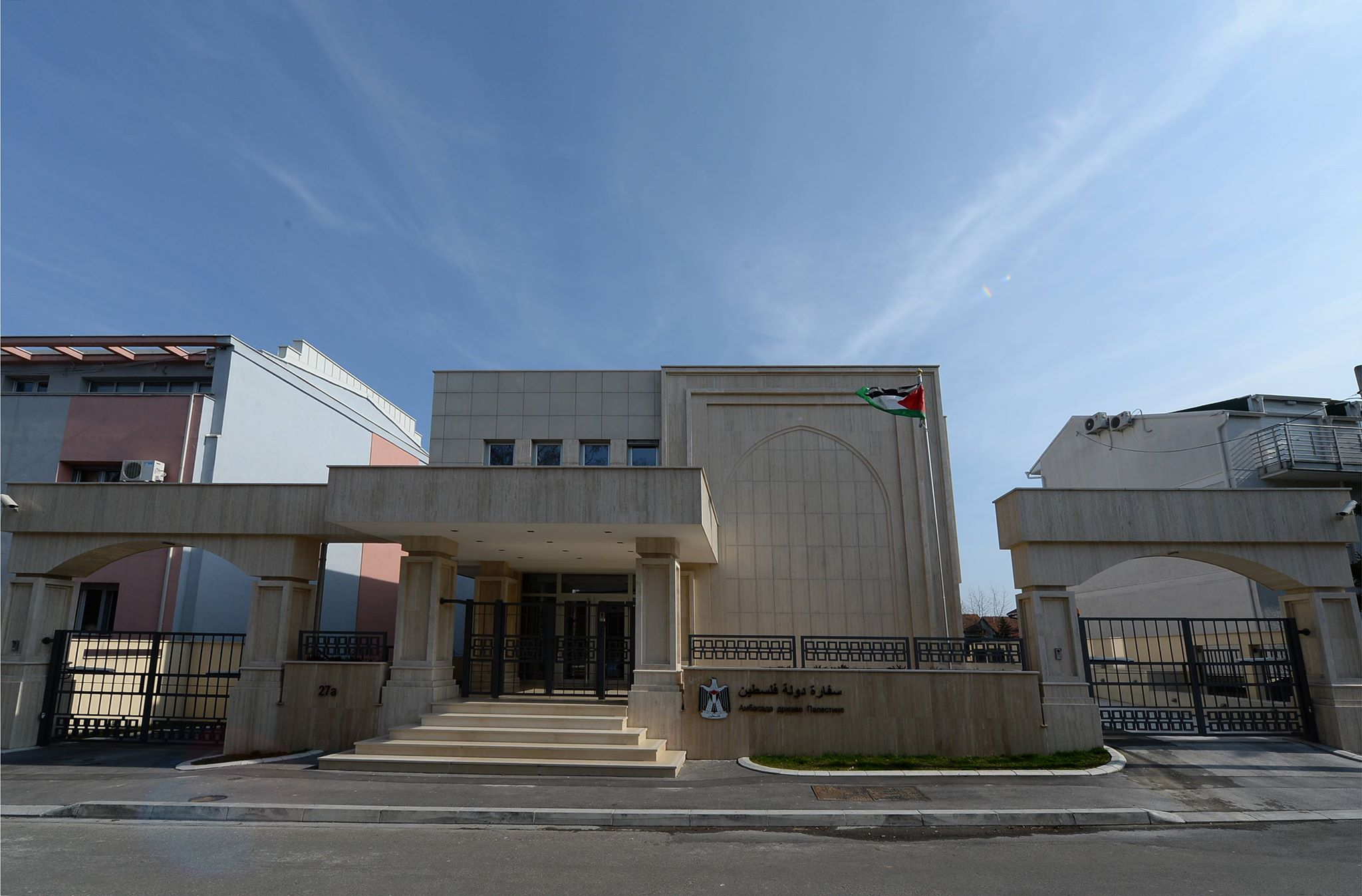 Embassy of The State of Palestine in The Republic of Serbia